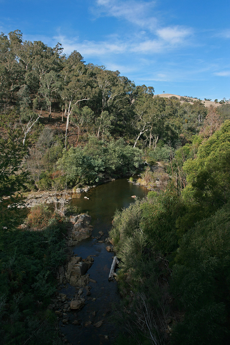 The confluence of the Tambo River and the Haunted Stream (entering from the bottom of the image) near Tambo Crossing, East Gippsland, Victoria, Australia.